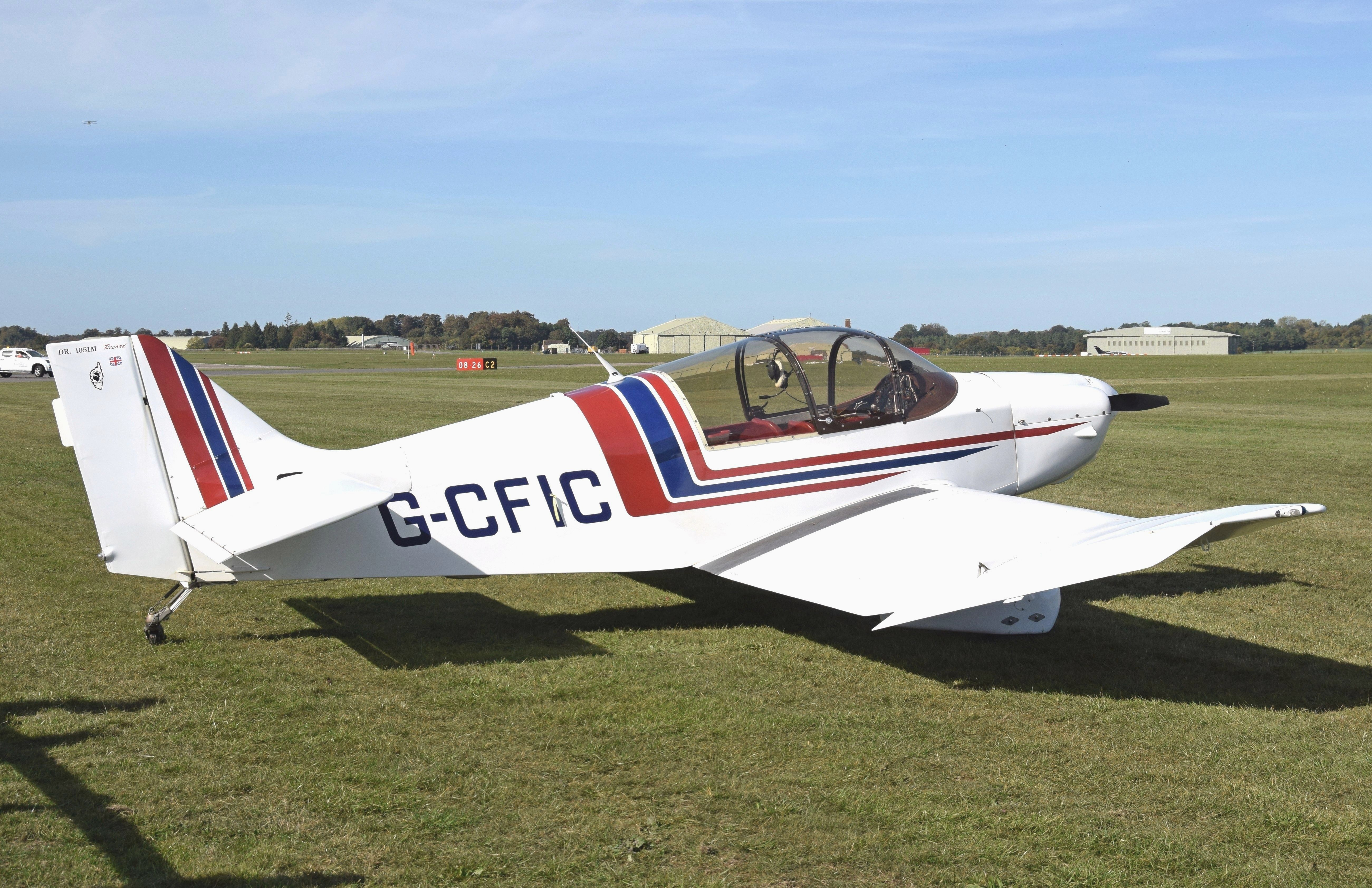 1963-built Jodel DR.1051-M1 ‘Sicile Record’ at the 2018 Cotswold Airport Revival Festival, Gloucestershire, England. Notes: Jodel’s name is from the founders – Edouard JOly and son-in-law Jean DELemontez. The aircraft name ‘Sicile Record’ commemorates Pierre Robin’s win, flying a Jodel, in the Round Sicily Rally in 1964 at an average speed of 162mph. DR is Delemontez Robin, the joint designers of the 1050 models. DR100 models are: DR100 - first produced with 90 hp Continental C90. DR105 - as for the DR 100, but with hydraulic brakes. DR1050 - as for the DR 105, but with 100 hp Rolls Royce or Continental O-200 engine. DR1051 - as for the DR 1050, but with 105 hp Potez 4E20 engine.